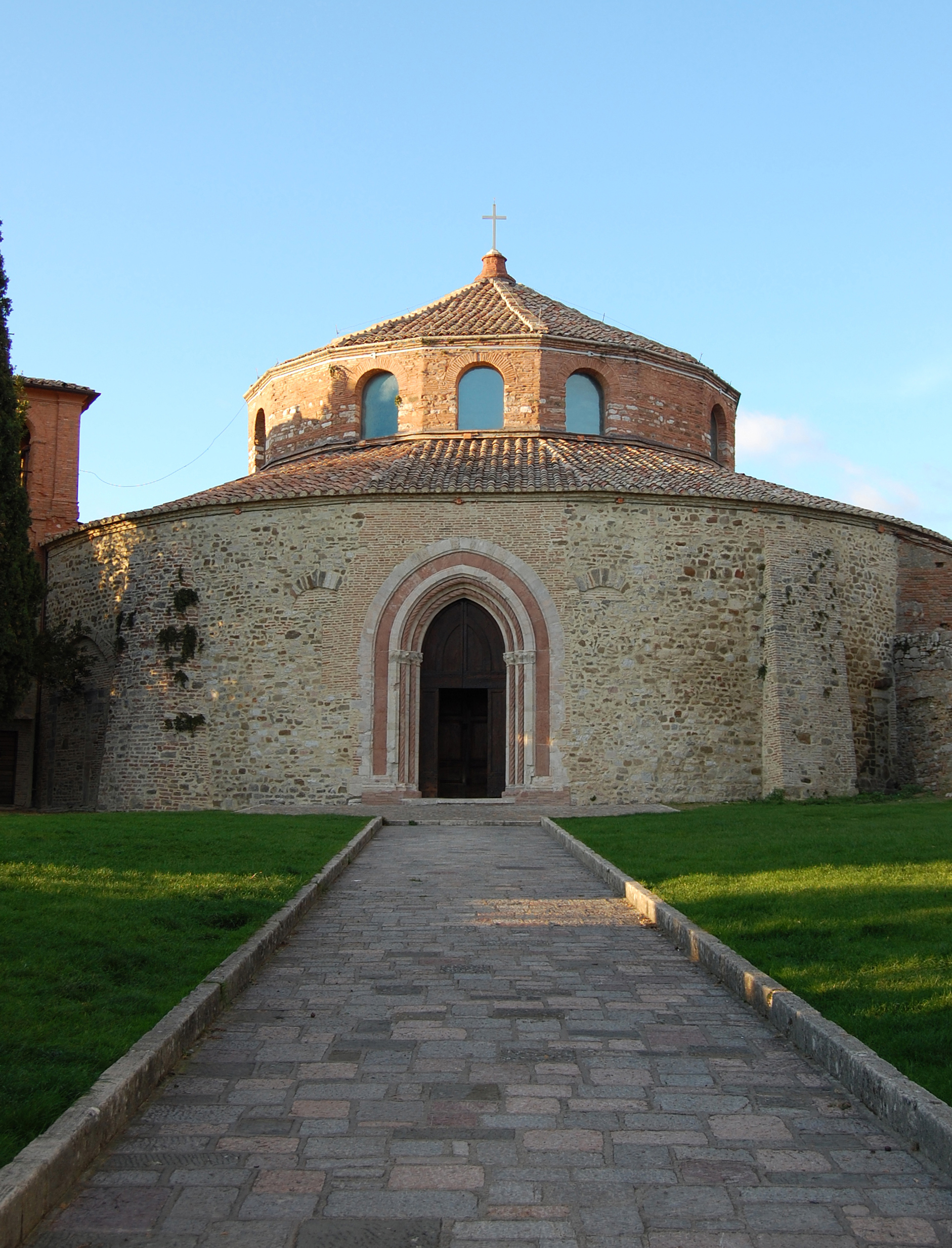 St. Angel church in Perugia.